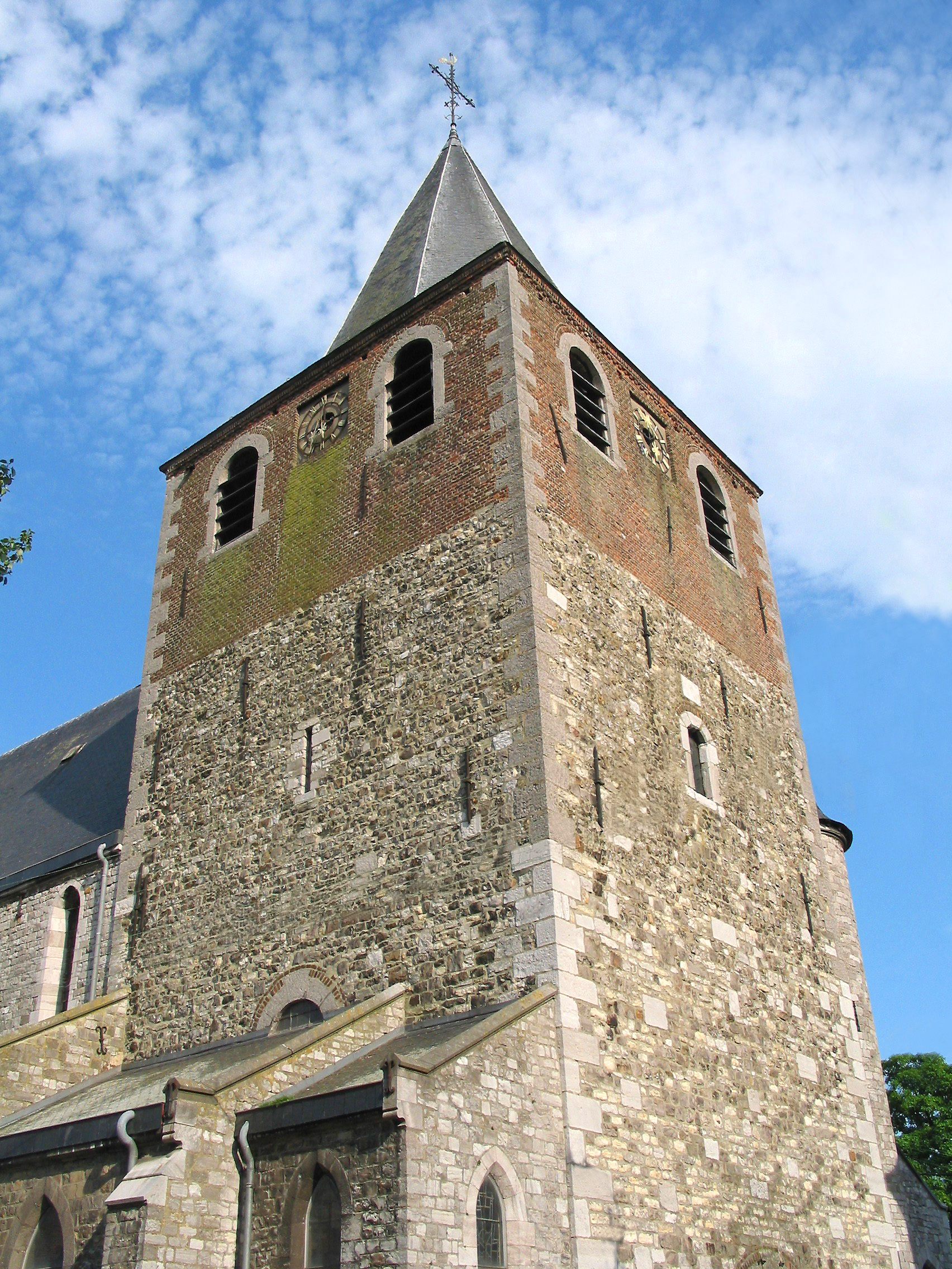 Hannut, the church of Saint Christopher (XV - XVIIIth centuries).